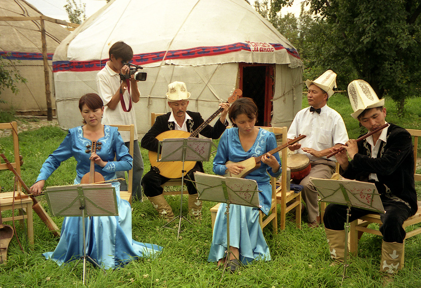 A scan from a 35mm photograph which I took at a yurt camp at Karakol in Kyrgyzstan in July 2002. The musicians are playing a selection of traditional Kyrgyz instruments, including komuz (stringed instrument in centre foreground) and sybyzgy (transverse flute), and were being filmed for Kyrgyz television. This scan is in the Public Domain (however, I retain ownership and copyright of the original negative and any higher-resolution scans derived from it). If you use the photo outside Wikipedia, a photographer's credit would be appreciated: Simon Garbutt. SiGarb 23:25, 20 November 2005 (UTC)